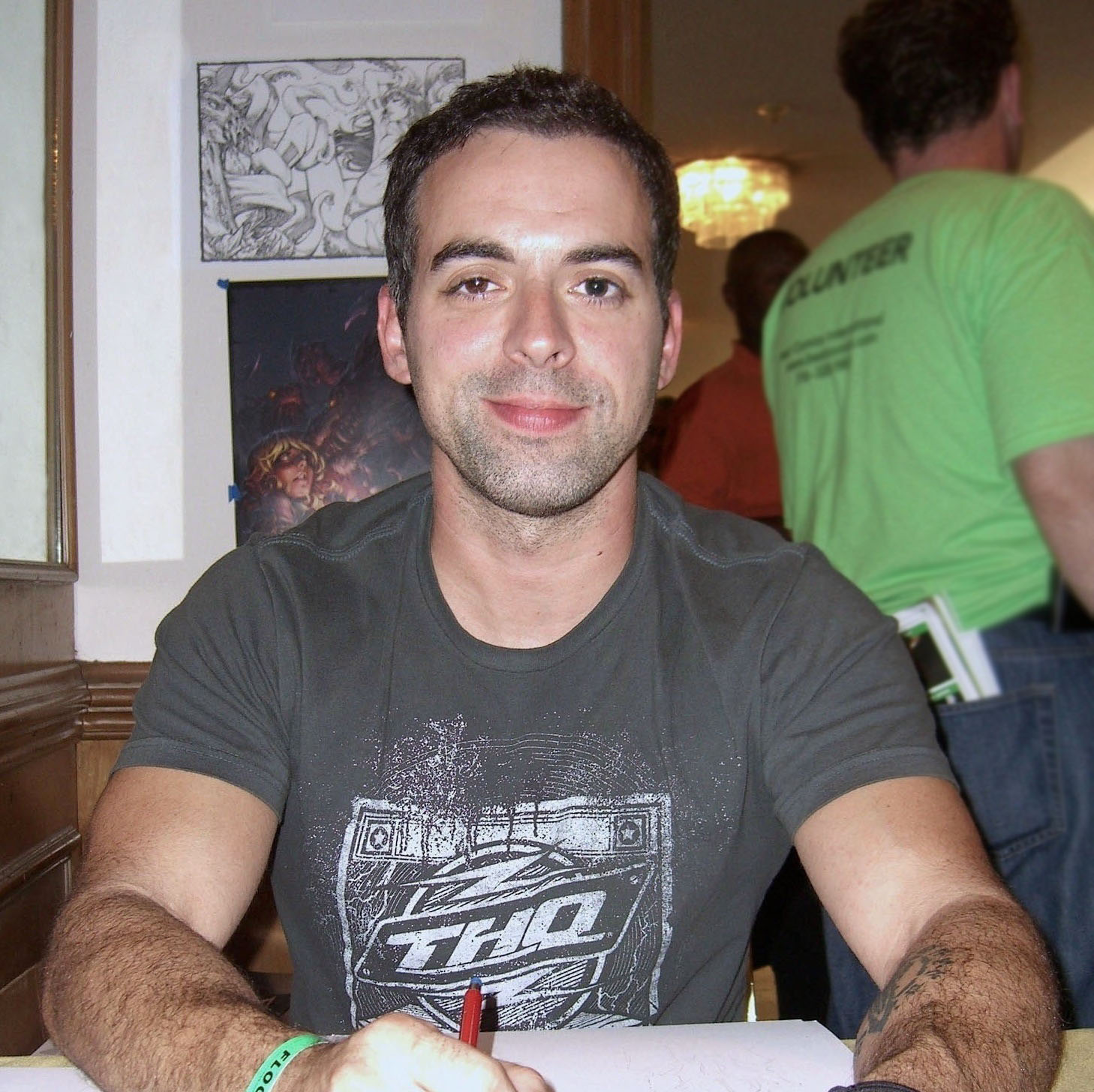 Comic book creator Joe Madureira at the Big Apple Convention in Manhattan, October 2, 2010. This photo was created by Luigi Novi. It is not in the public domain, and use of this file outside of the licensing terms is a copyright violation.